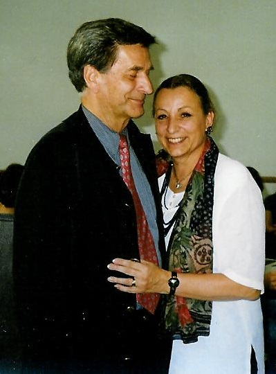 Konstanze Vernon with husband Fred Hoffmann 1997